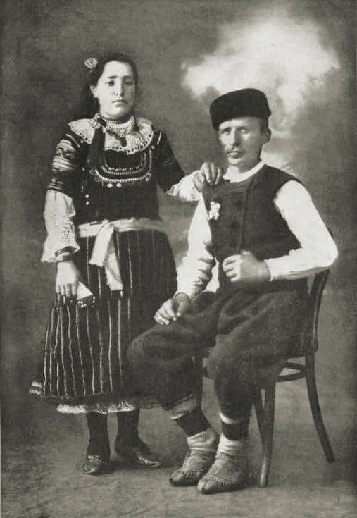 A newly engaged couple: Bulgaria National Geographic Magazine, 1915